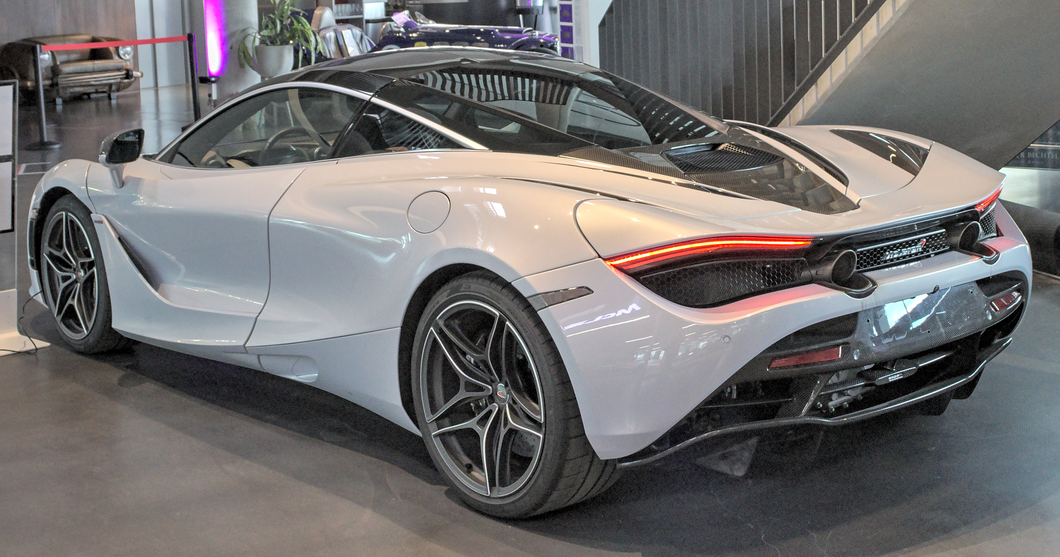 McLaren_720S in Böblingen